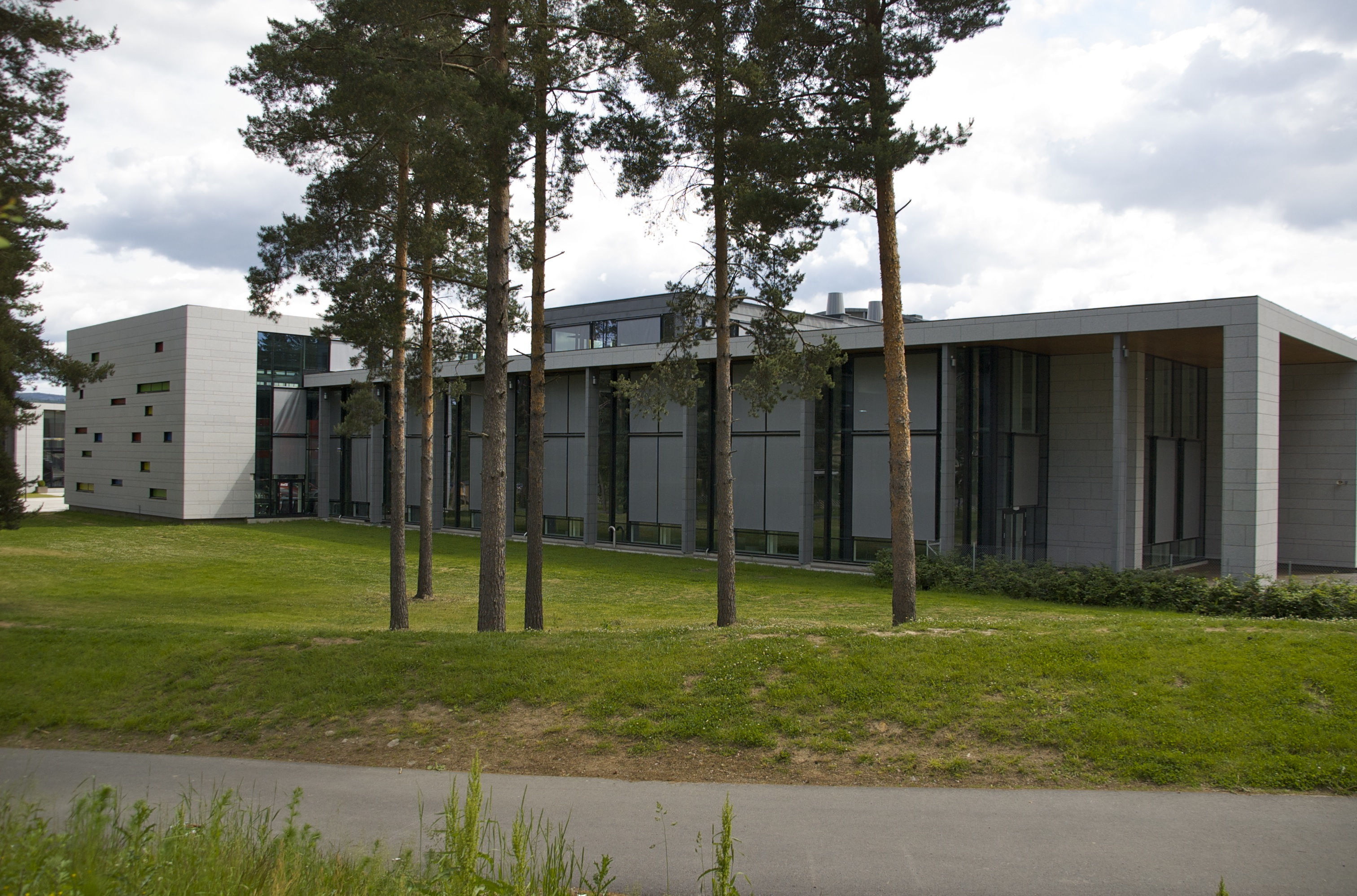 Some of the buildings comprising Skien Fritidspark.